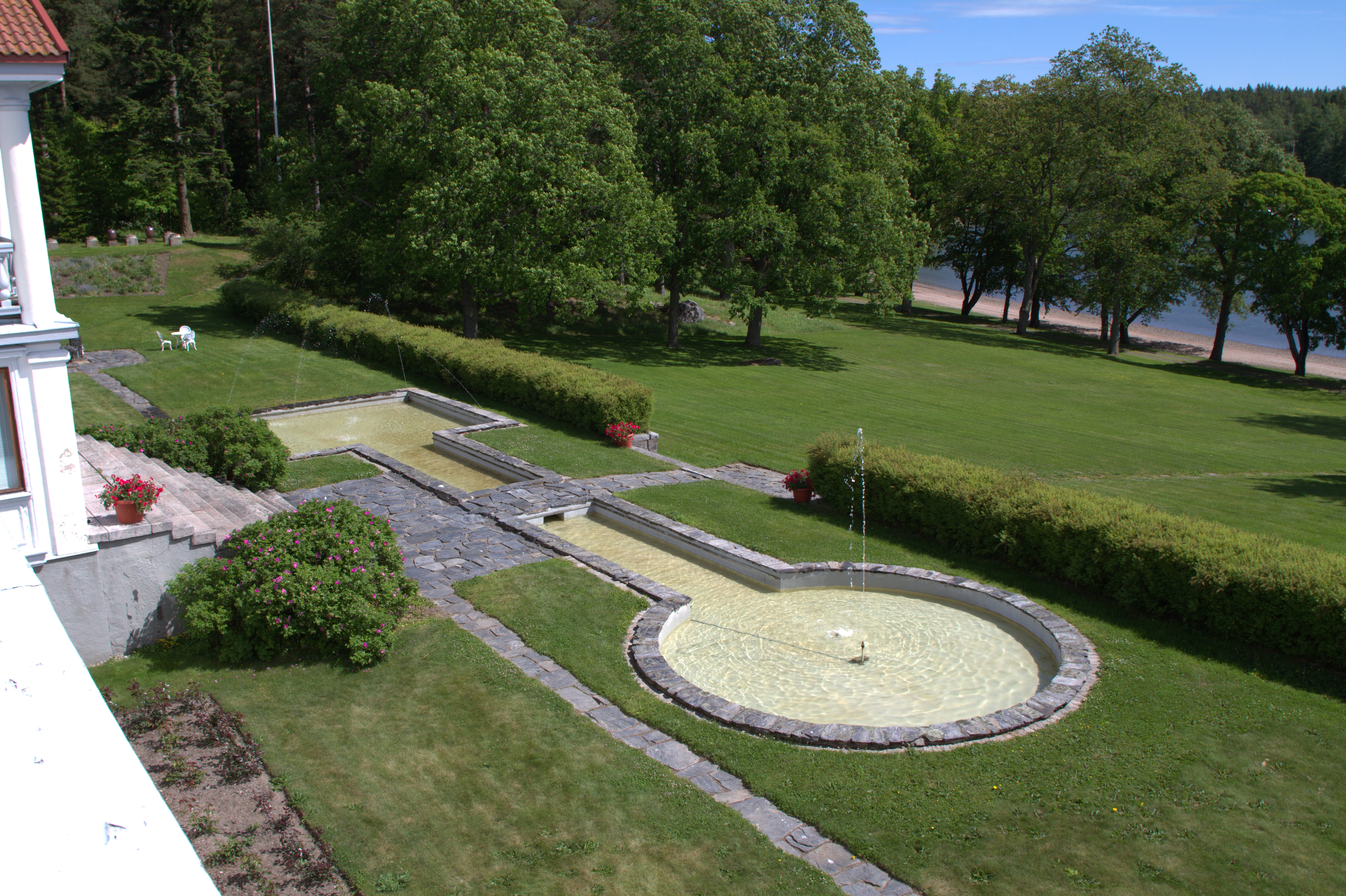 Söderlångvik